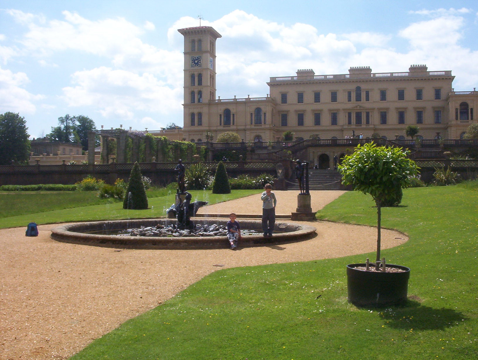 Osborne House Isle of Wight, 2004 View from the North looking up the ornamental drive towards the main house. Taken by User:Naturenet May 2004